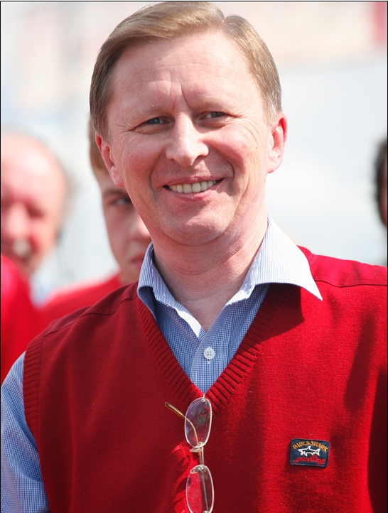 Russian politician Sergei Ivanov on Seliger